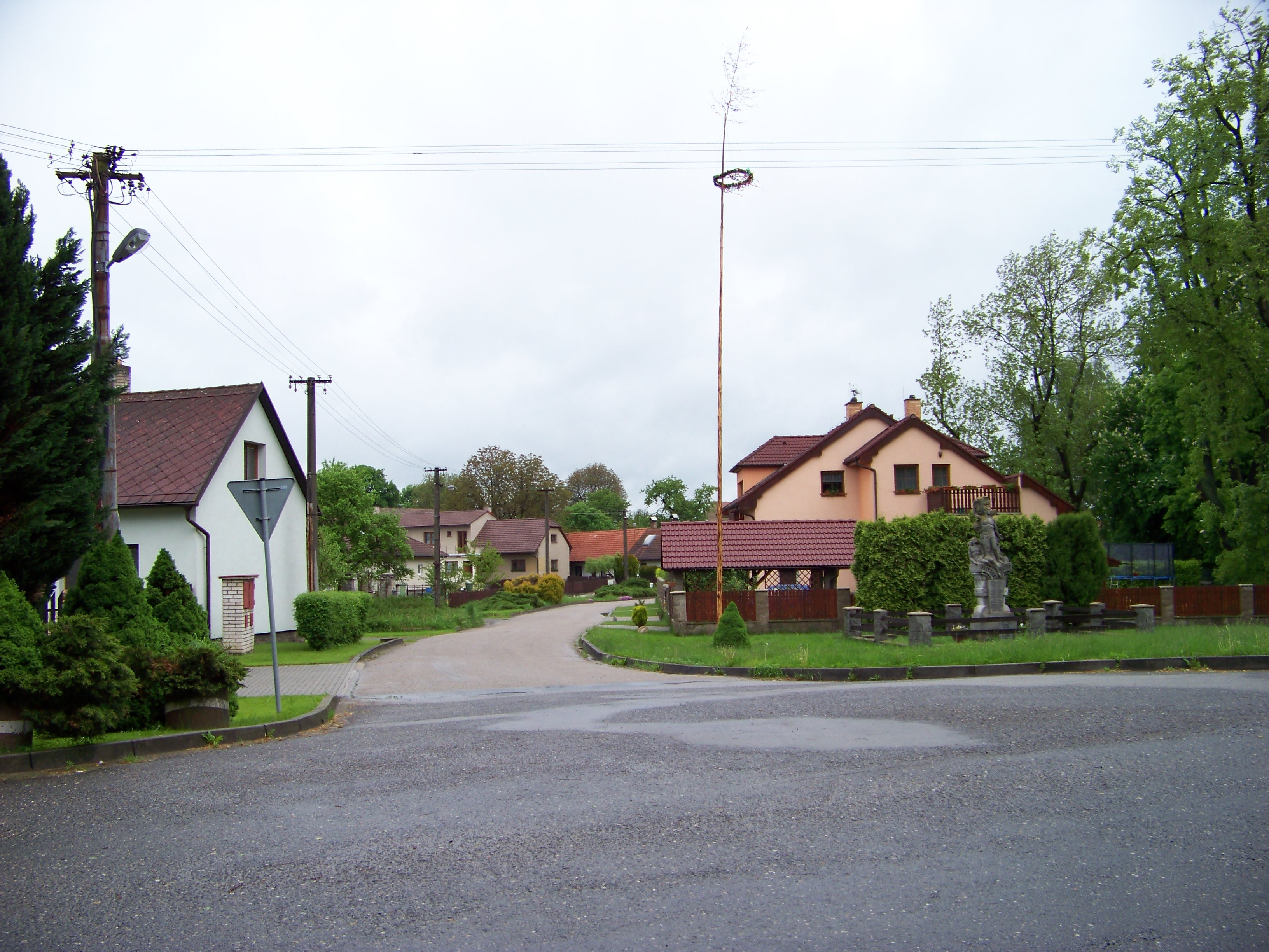 Bystřice-Drachkov, Benešov District, Central Bohemian Region, the Czech Republic. World War I memorial and a maypole. - Google Maps - Google Earth